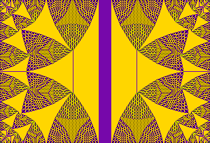 An identity (neutral) element of the sandpile group of the 300x205 grid surrounded by sink. 0 grain pixels are black 1 grain pixels are green 2 grain pixels are purple (like the narrow rectangle in the middle) 3 grain pixels are golden (like the astroid-like shape surronding the central rectangle)